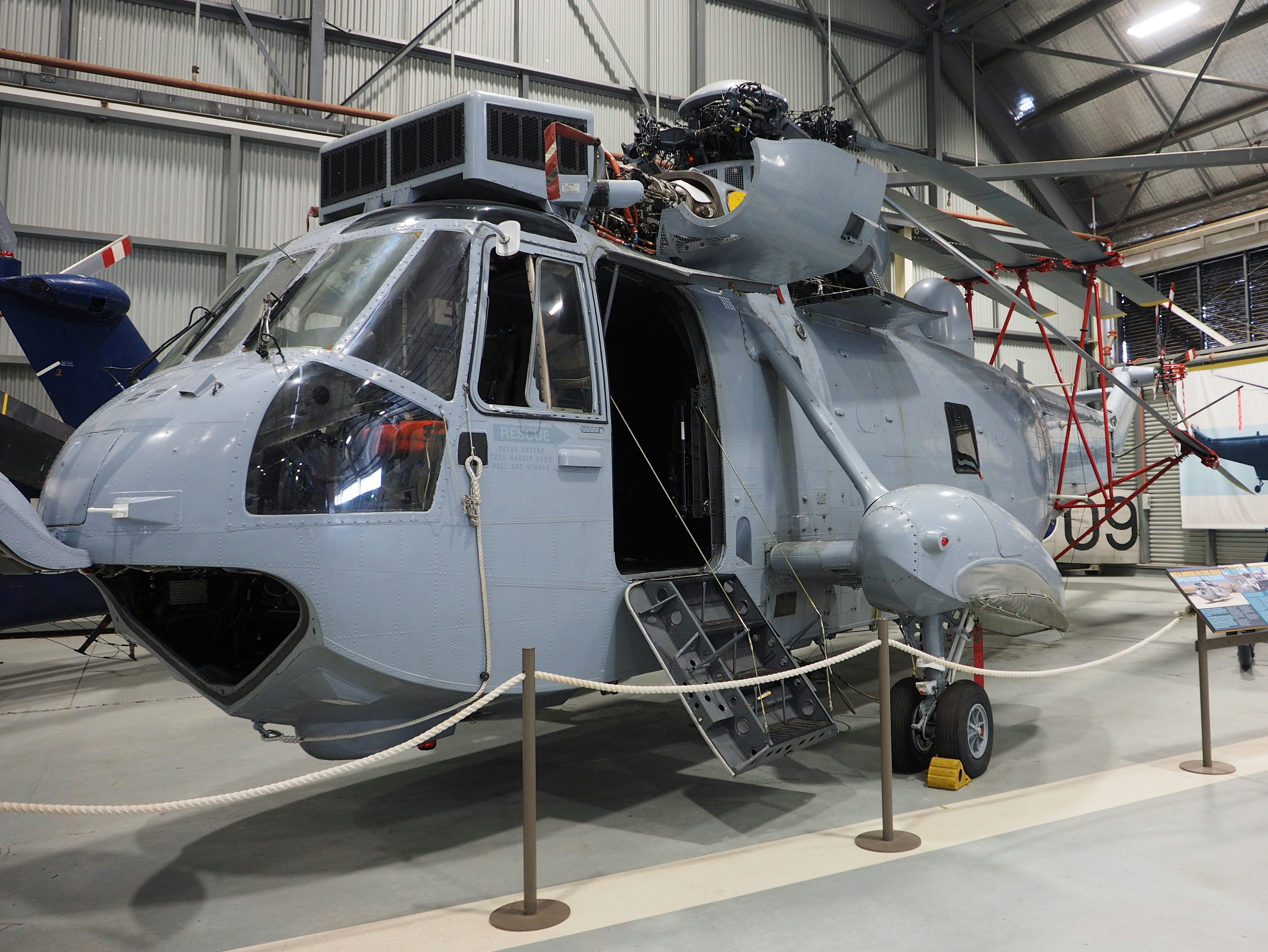 The former Royal Australian Navy Westland Sea King helicopter "Shark 07" on display at the Fleet Air Arm Museum